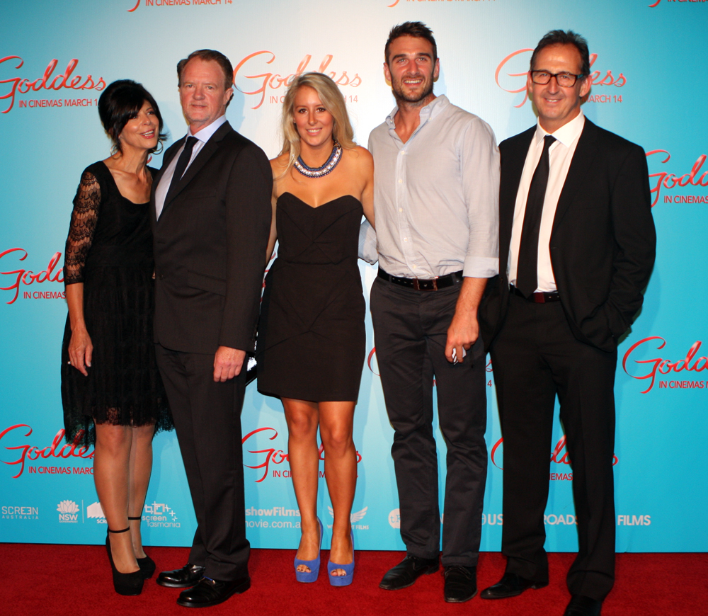 'Goddess' world premiere - Red Carpet event; Bondi Junction, Sydney, Australia... 'Goddess' enjoyed its Sydney, Australia premiere at Event Cinemas, Bondi Junction earlier this evening. Irish sensation Ronan Keating was there, as was West End and Broadway star Laura Michelle Kelly and much-loved comedian Magda Szubanski. Directed by: Mark Lamprell Starring: Ronan Keating, Magda Szubanski and Laura Michelle Kelly When a young mother mother of naughty twin boys Elspeth Dickens installs a webcam in her kitchen, her funny sink-songs make her a cyber-sensation. While husband James is off saving the world's whales, Elspeth is offered a chance of a lifetime. But when forced to choose between fame and family, the newly anointed internet goddess almost loses it all. Cast members attending world premiere: Ronan Keating, Laura Michelle Kelly, Magda Szubanski, Hugo Johnstone-Burt, Dustin Clare, Natalie Tran, Celia Ireland, Mike Goldman and director Mark Lamprell. Plot... Elspeth Dickens dreams of finding her "voice" despite being stuck in an isolated farmhouse with her twin toddlers. A web-cam becomes her pathway to fame and fortune, but at a price. Websites Village Roadshow Australia Eva Rinaldi Photography